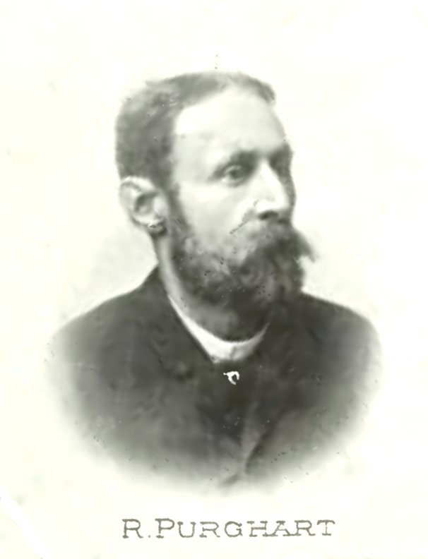 Portrait of Richard Purghart (1851-1910), Czech teacher and politician.